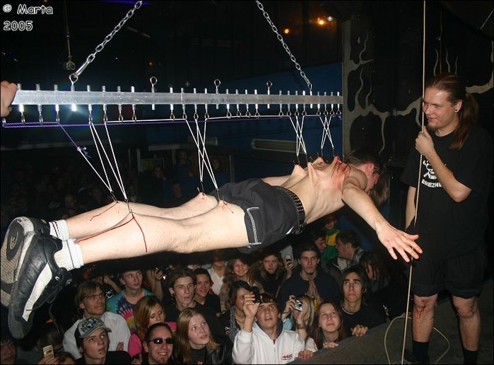 show in Moscow